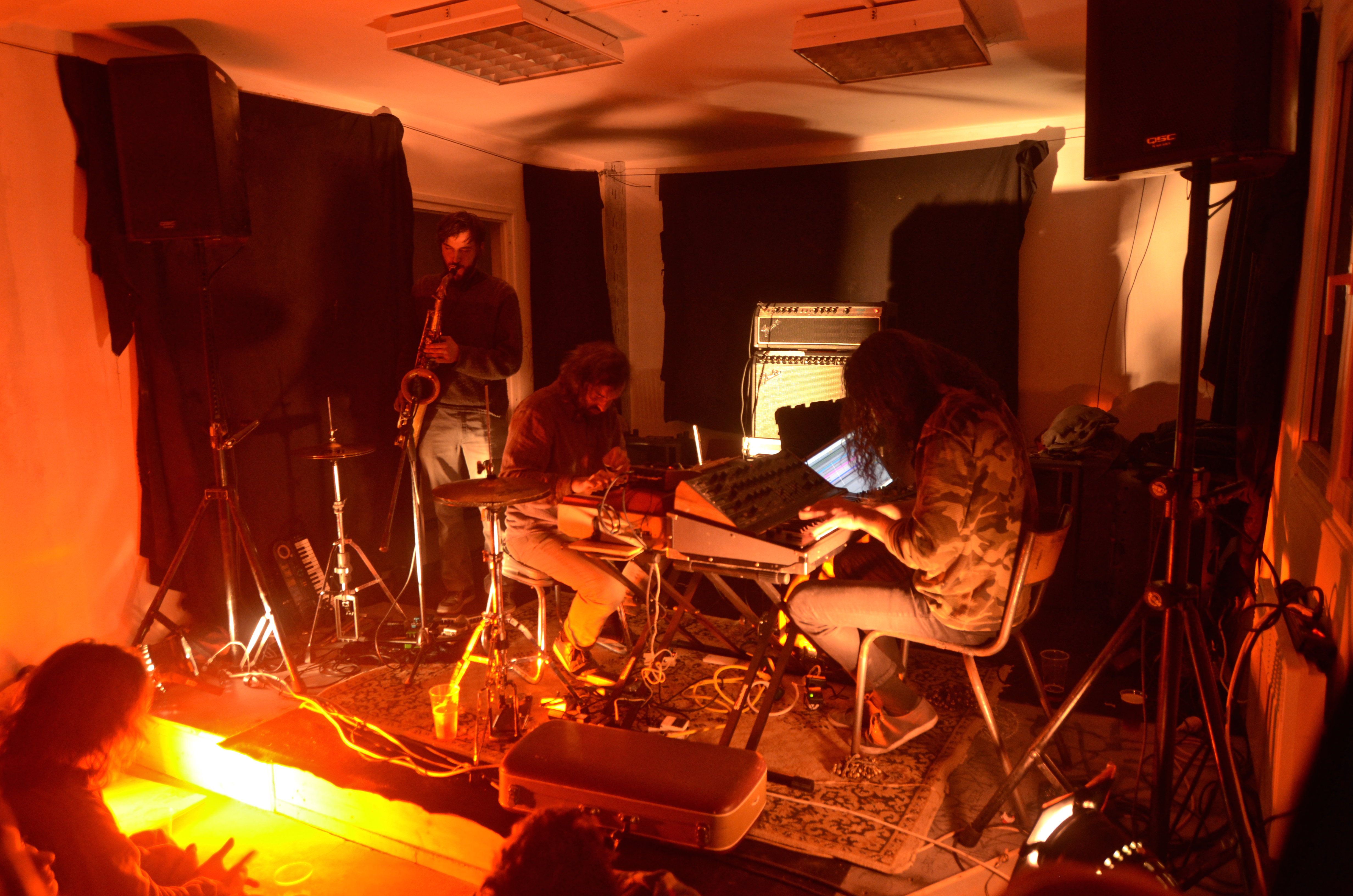 Rob Fry, Cooper Crain and Dan Quinlivan perform as Bitchin Bajas at ground zero hors les mur, somewhere around Lyon, France.